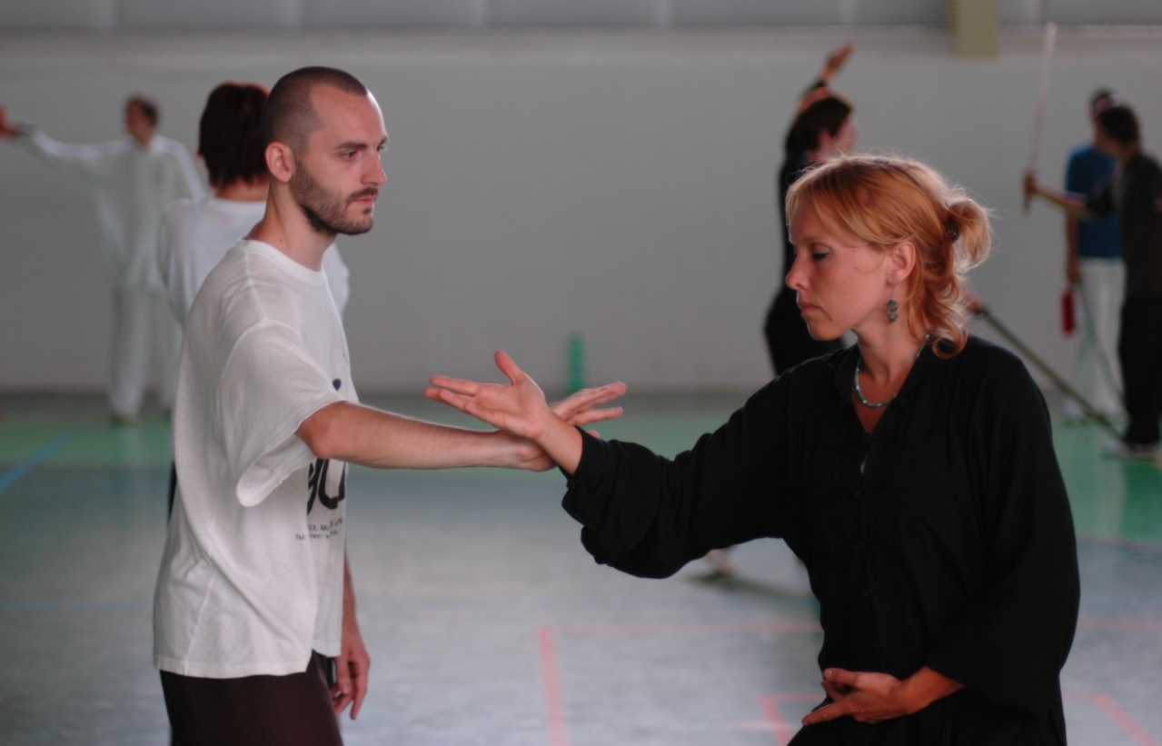 Push hands at a wushu training camp in the Czech Republic.